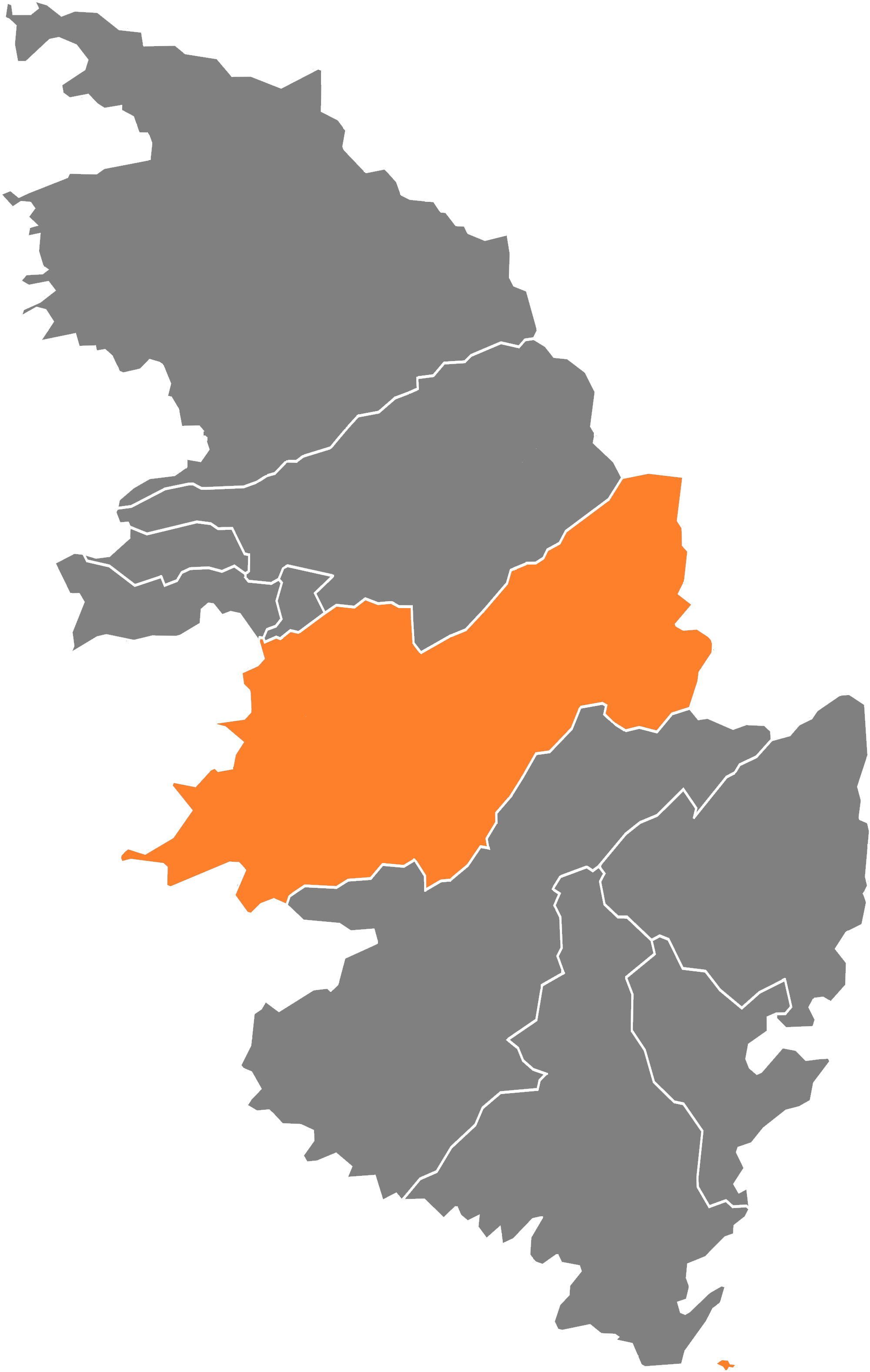 Canton de Taravo-Ornano territory in 2015 on the Corse-du-Sud department map